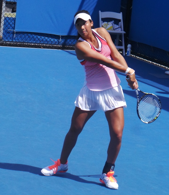 Priscilla Hon at the 2016 Australian Open